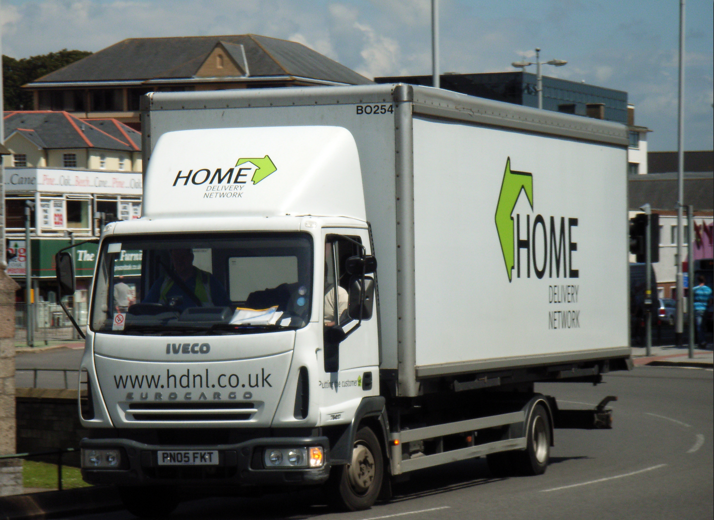 PN05FKT IVECO 75E17 BOX VAN 3920cc (10/08/2005) DIESEL 24/07/2007 Home Delivery Network